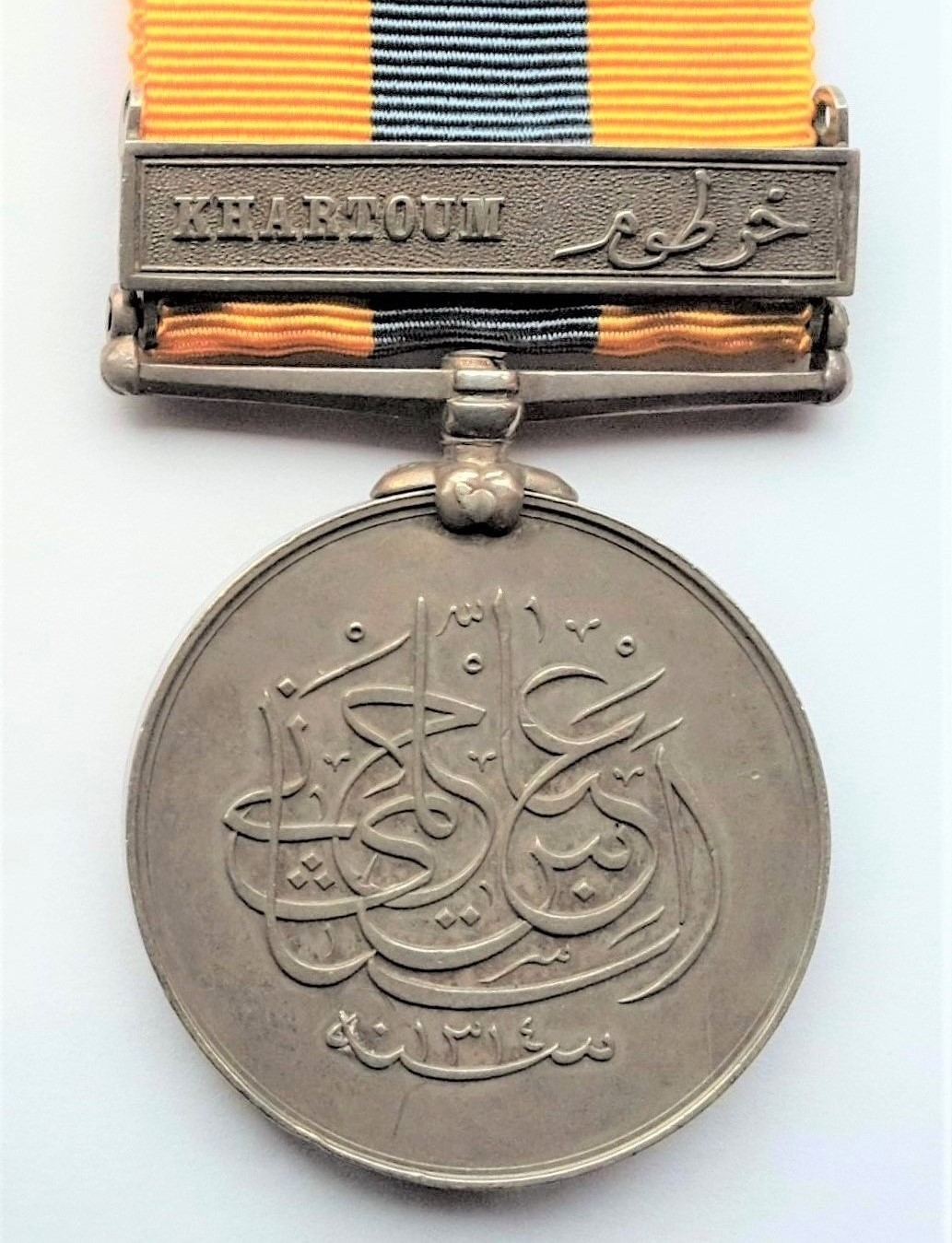 Campaign medal awarded by Egypt to those who served in the Egyptial and British armies at the battle of Omdurman